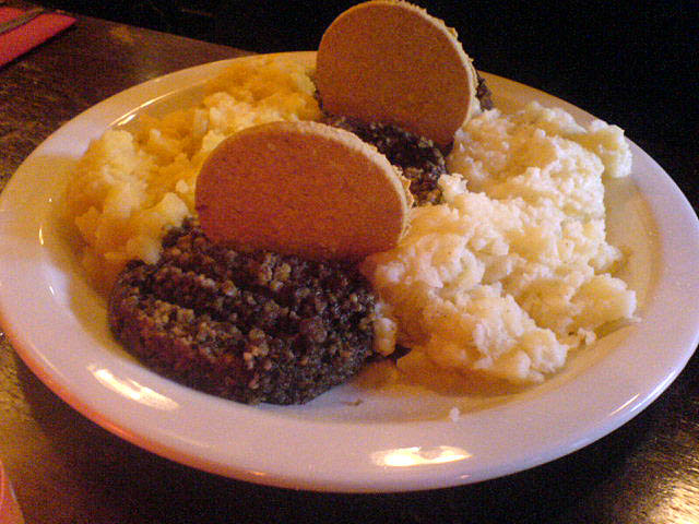 The classic Scottish dishes: Haggis, neeps & tatties at Clever Dicks on Edinburgh's Royal Mile